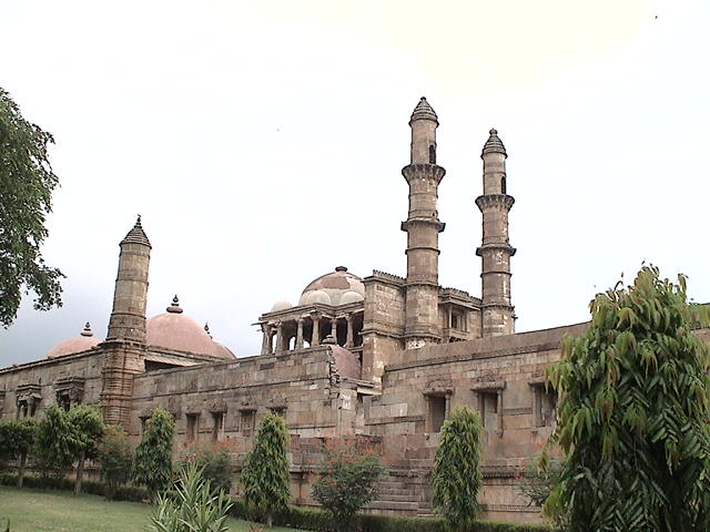 THIS IS THE ANCIENT JAMA MASJID AT CHMPANER WORLD HERITAGE SITE - PHOTOGRAPH BY PRADIP SHAH